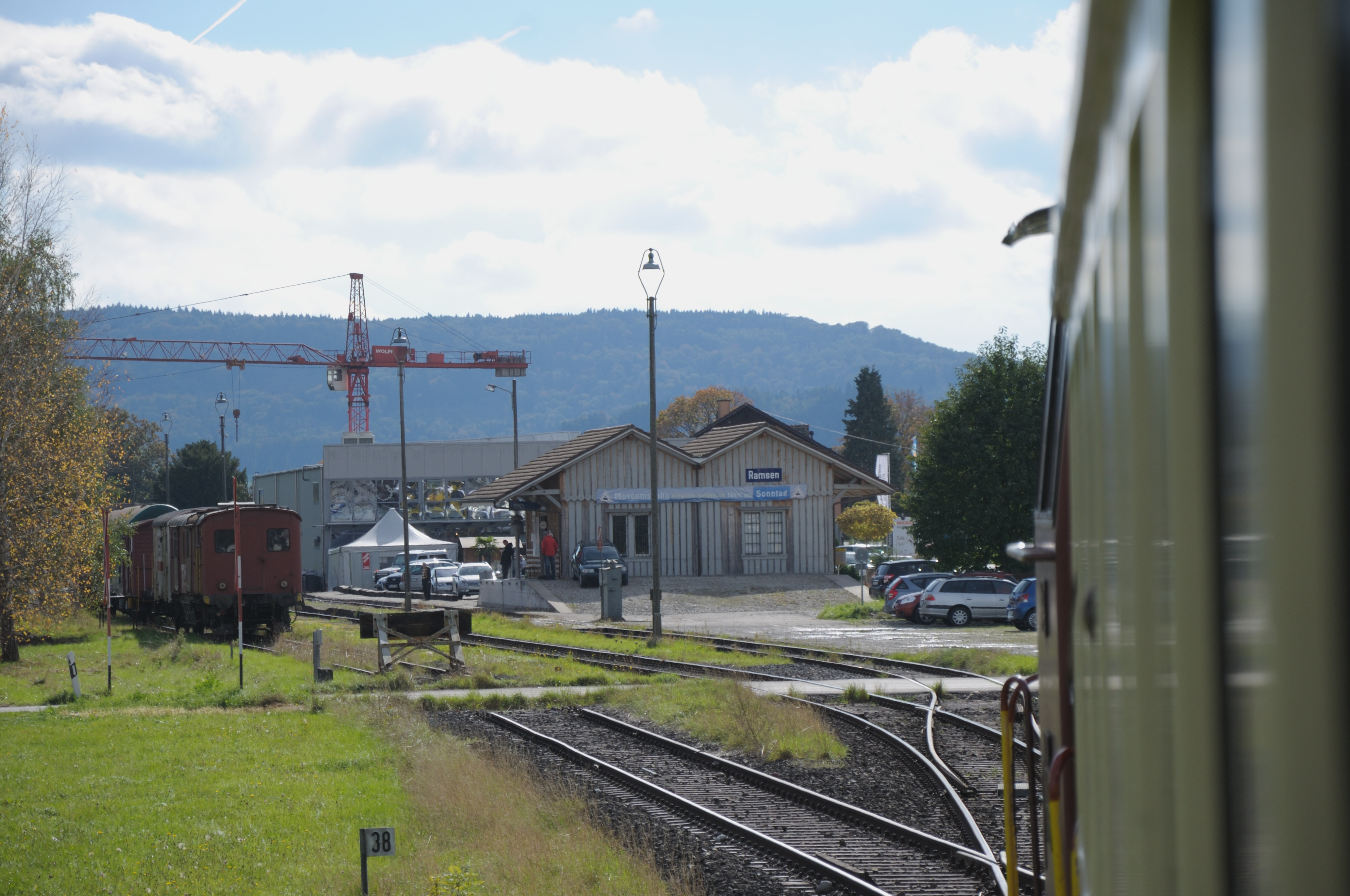 Switzerland, Canton of Schaffhausen, views along the museum railway line between Rielasingen (Germany) and Etzwilen (Switzerland)